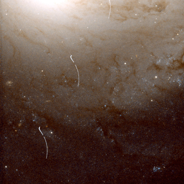 This is a broken asteroid trail crossing the outer regions of galaxy Messier 91 in Coma Berenices. Five trail segments (shown in white) were extracted from individual exposures and added to a cleaned color image of the galaxy. The asteroid enters the image at top center and moves down toward the lower left. Large gaps in the trail occur because the telescope is orbiting the Earth and cannot continuously observe the galaxy. This asteroid has a visual magnitude of 20.8, a diameter of one mile (1.6 kilometers), and was seen at a distance of 254 million miles from Earth and 292 million miles from the sun.